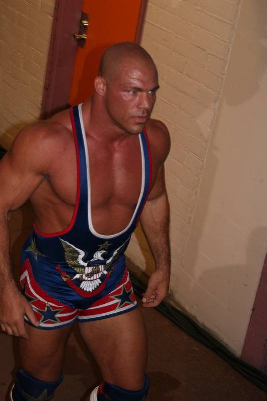 Kurt Angle during a WWE house show held in Kitchener, Ontario, Canada on August 12, 2005.